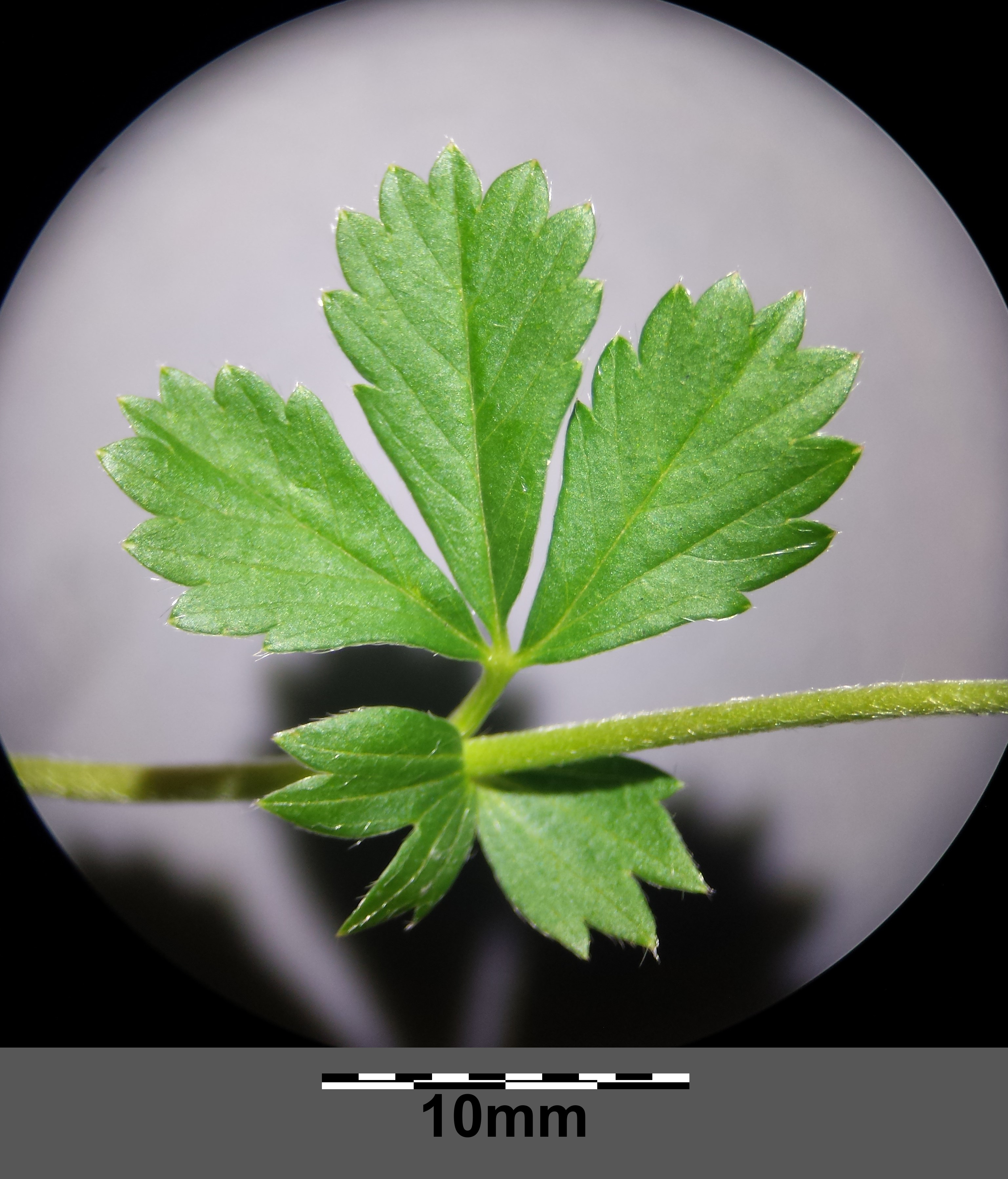 Stem with leaves and stipules (top side) Taxonym: Potentilla erecta ss Fischer et al. EfÖLS 2008 ISBN 978-3-85474-187-9 Location: nearby Riebeis, Rappottenstein, district Zwettl, Lower Austria - ca. 770 m a.s.l. Habitat: meadows